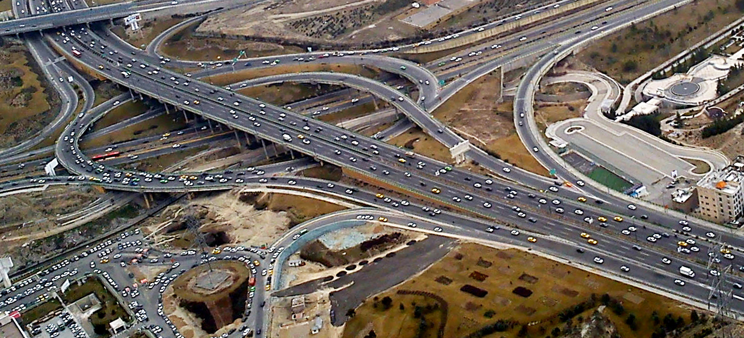 Tehran City Expressways